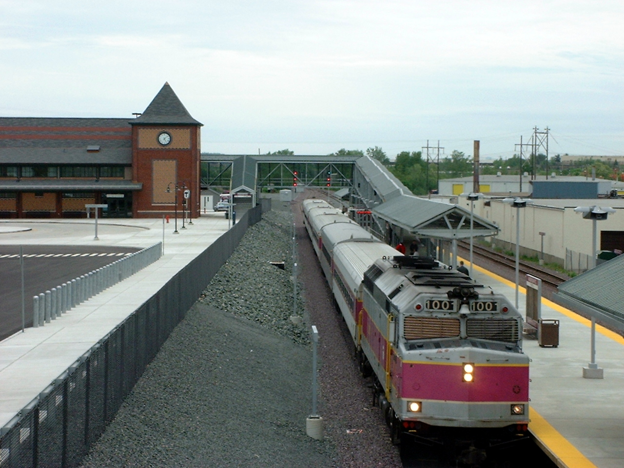 An MBTA Commuter Rail train at Anderson Regional Transportation Center in Woburn, Massachusetts